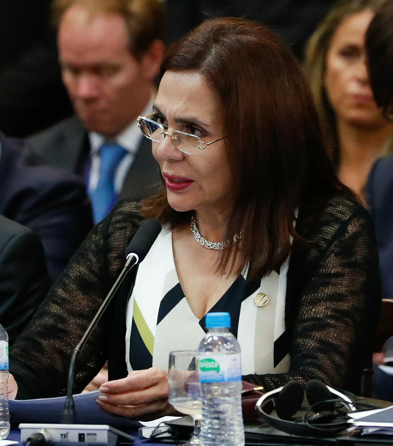 (Bento Gonçalves - RS, 05/12/2019) Palavras da Ministra de Relações Exteriores do Estado Plurinacional da Bolívia, Karen Longaric.\rFoto: Alan Santos/PR